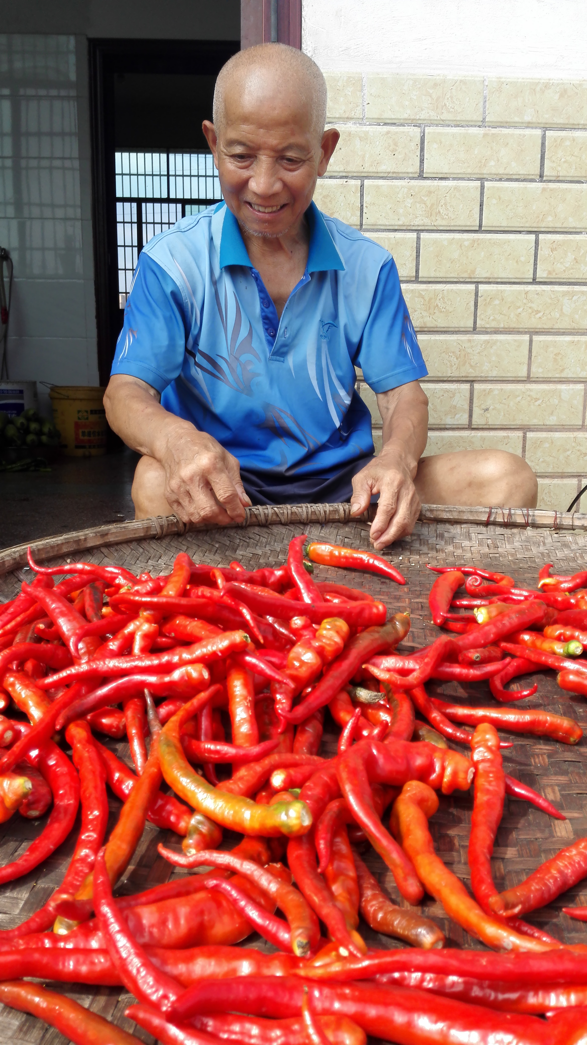 Chili picking